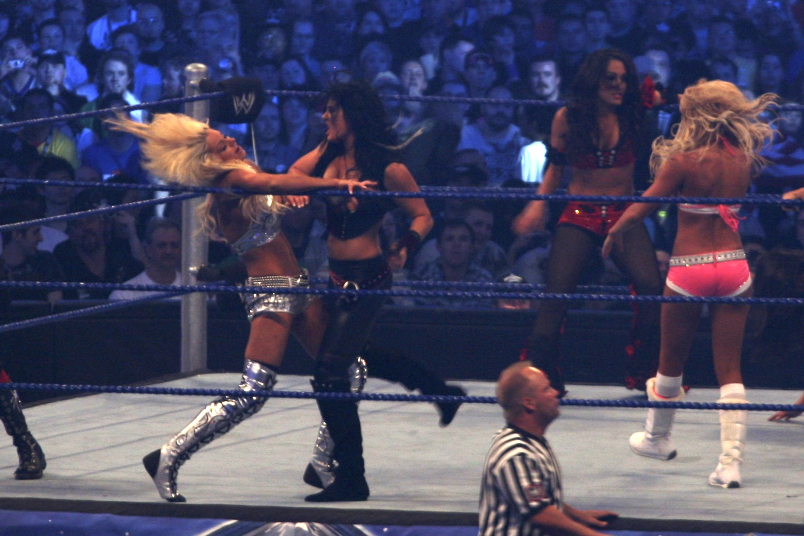 The Diva Battle Royal at Wrestlemania 25 at Reliant Park in Houston Texas 2009. From left to right: Maryse (in silver costume), Katie Lea (black costume), Nikki Bella (red costume) and Kelly Kelly (back to camera)